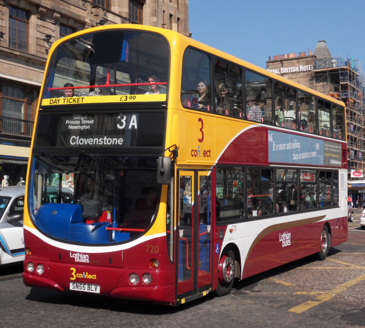 Lothian Buses bus 720 (reg. SN55 BLV), a 2005 Volvo B7TL double-decker with Wrightbus Eclipse Gemini bodywork, pictured heading west on Princes Street on route 3A to Clovenstone, wearing a one off 'Connect 3' version of the new Madder and White livery. 720 was one of three Lothian buses repainted in March 2010 to launch a new version of the traditional Madder and White livery. This livery had dissapeared in Summer 2009 with final withdrawal of the last step entrance buses in the fleet, having been gradually replaced since 1999 with new batches of low floor buses, which wore the 'Harlequin' livery - red and gold squares on a white background. The other two launch buses were 720's sister No. 725 and a 2004 single-decker No. 101. While the other two buses were launched in the standard colours, 720 also wore route branding, combining the 'Connect' wording adopted on new buses for routes 22 (pink) and 26 (red) in 2009, with the yellow branding colour used by route 3/3A when these buses were delivered new in 2005. 720 proved to be a one off however; in September 2010 it was announced route 3/3A would be one of the routes receiving new branding based on local associations, with repaints on the 3/3A becoming 'The Lady Victoria', but retaining the yellow base colour.